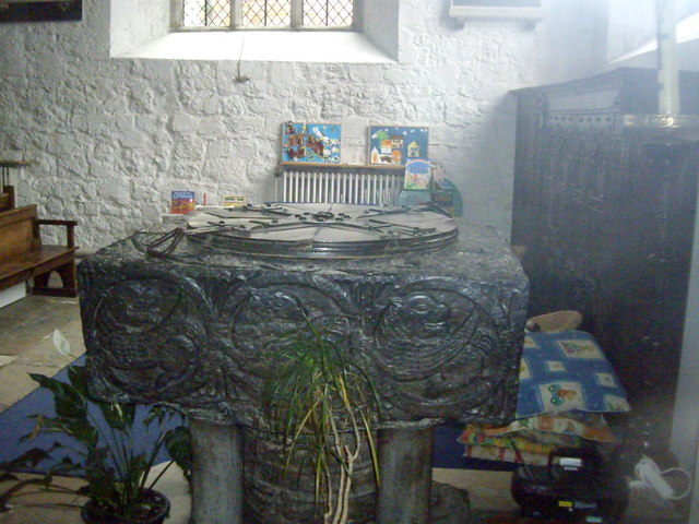 Stone font in the southwest corner of St Michael's parish church, Southampton, Hampshire. Black "marble" from Tournai in Normandy, carved in the 12th century.